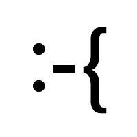 Farhad Fozouni's face icon